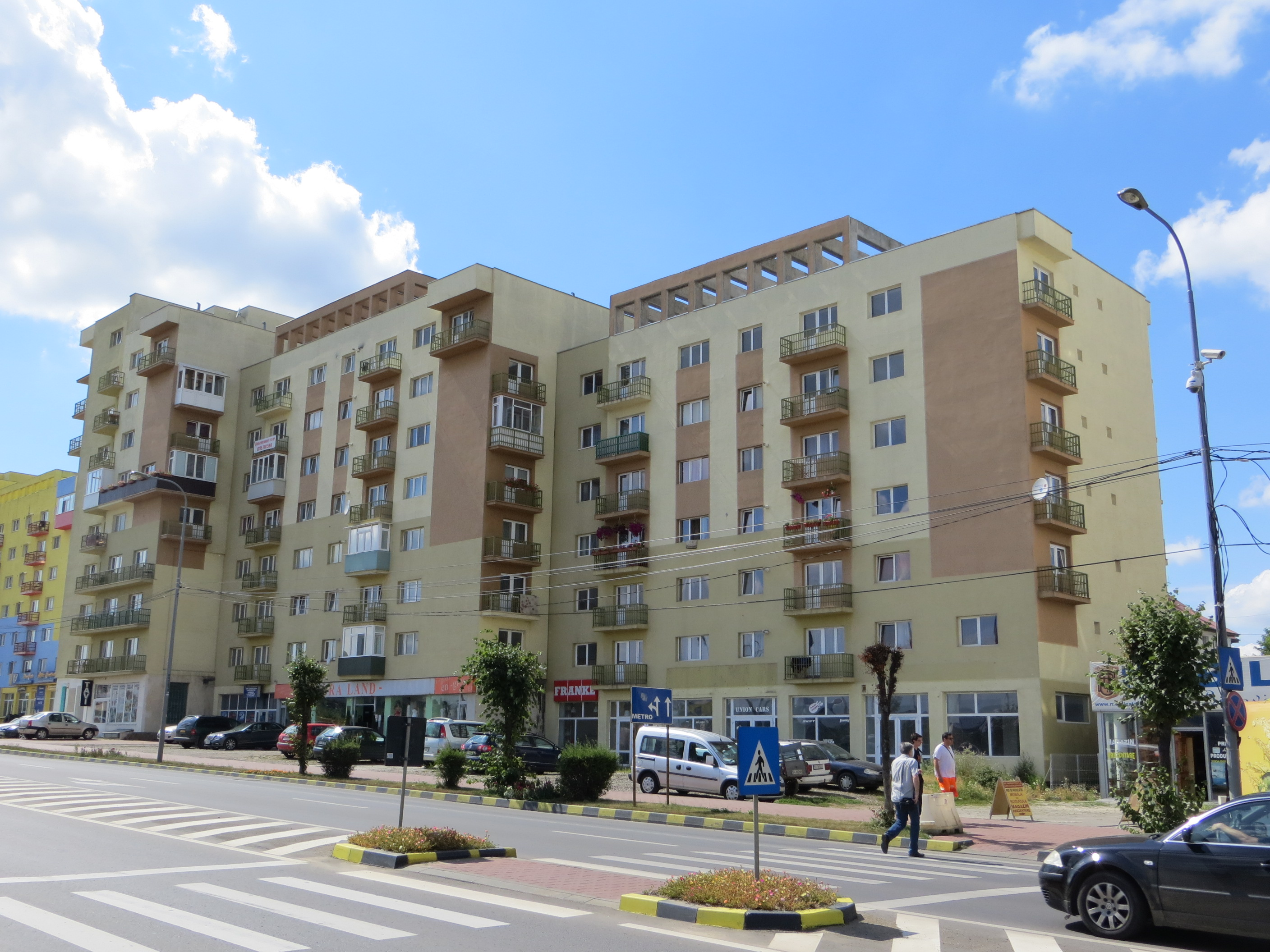 Apartment block in Suceava located on 1 Decembrie 1918 Avenue.